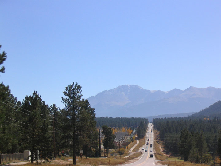 Town of Woodland Park, CO